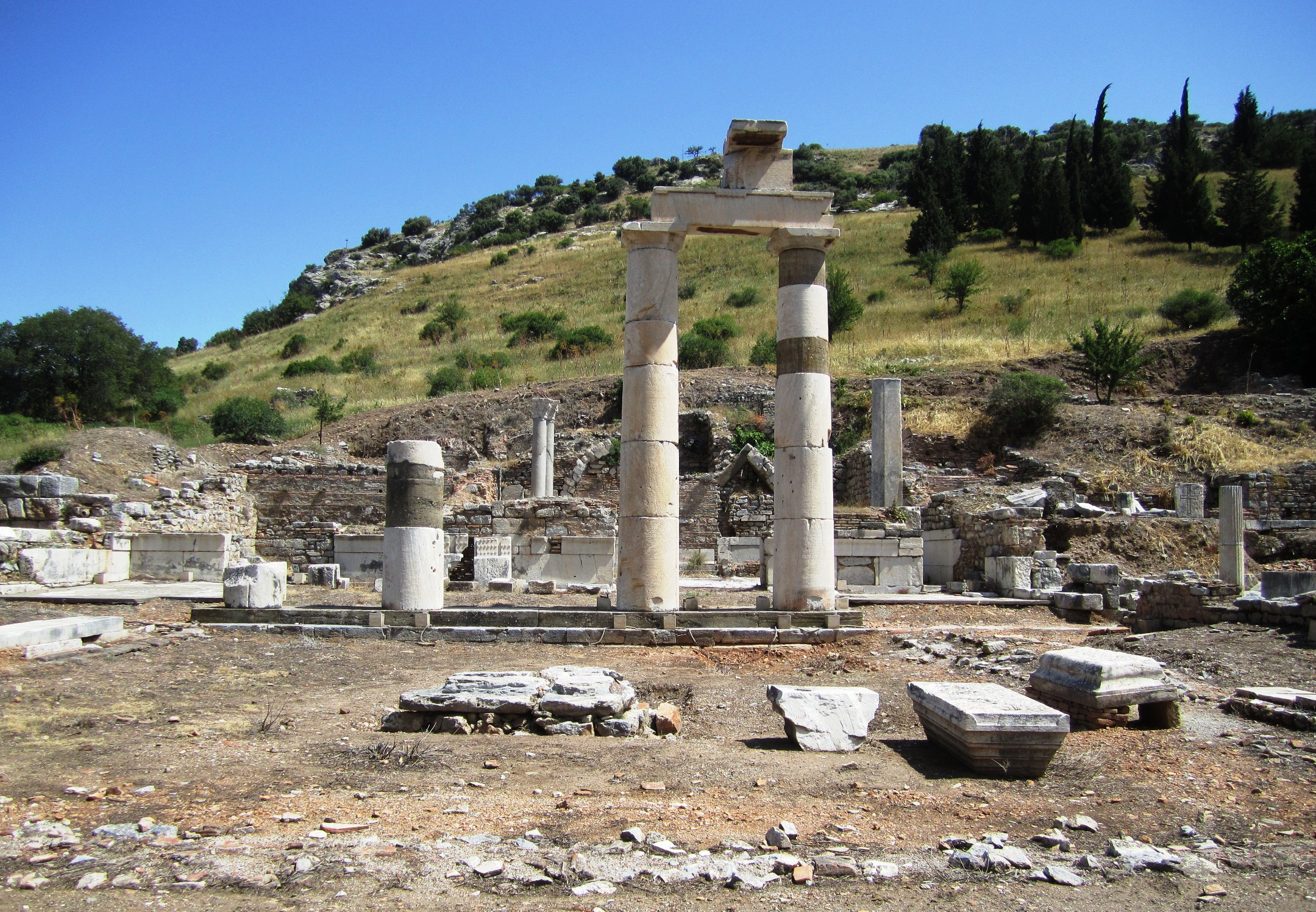 Prytaneion (Ephesus)